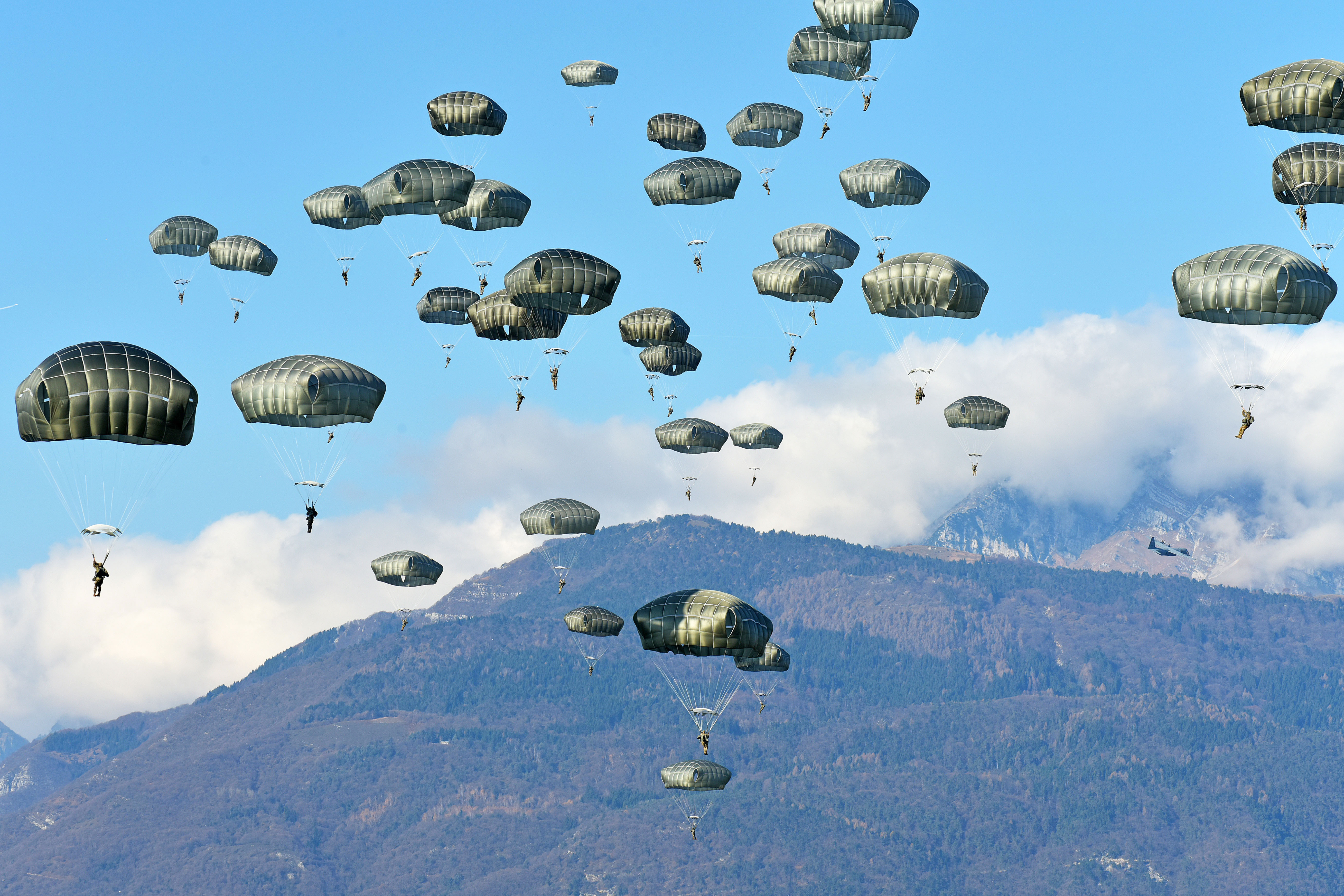 U.S. Army Paratroopers assigned to the 173rd Airborne Brigade with British and Italian Army paratroopers, exit a U.S. Air Force C-130 Hercules aircraft from the 86th Air Wing during airborne operation at Juliet Drop Zone, Pordenone, Italy Dec. 3, 2019. The 173rd Airborne Brigade is the U.S. Army Contingency Response Force in Europe, capable of projecting ready forces anywhere in the U.S. European, Africa or Central Commands' areas of responsibility. (U.S. Army Photo by Paolo Bovo)